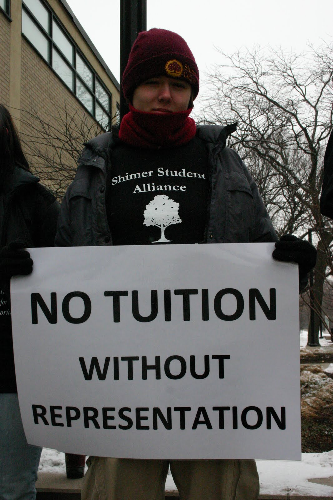 Shimer College student holds sign reading "No Tuition Without Representation" during a protest of a Board of Trustees meeting in February 2010.